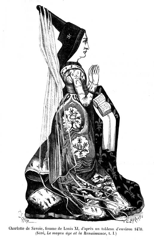 Charlotte of Savoy, Queen of France